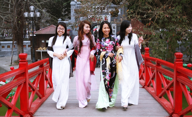 Young girls in ao dai by the Hoan Kiem Lake.